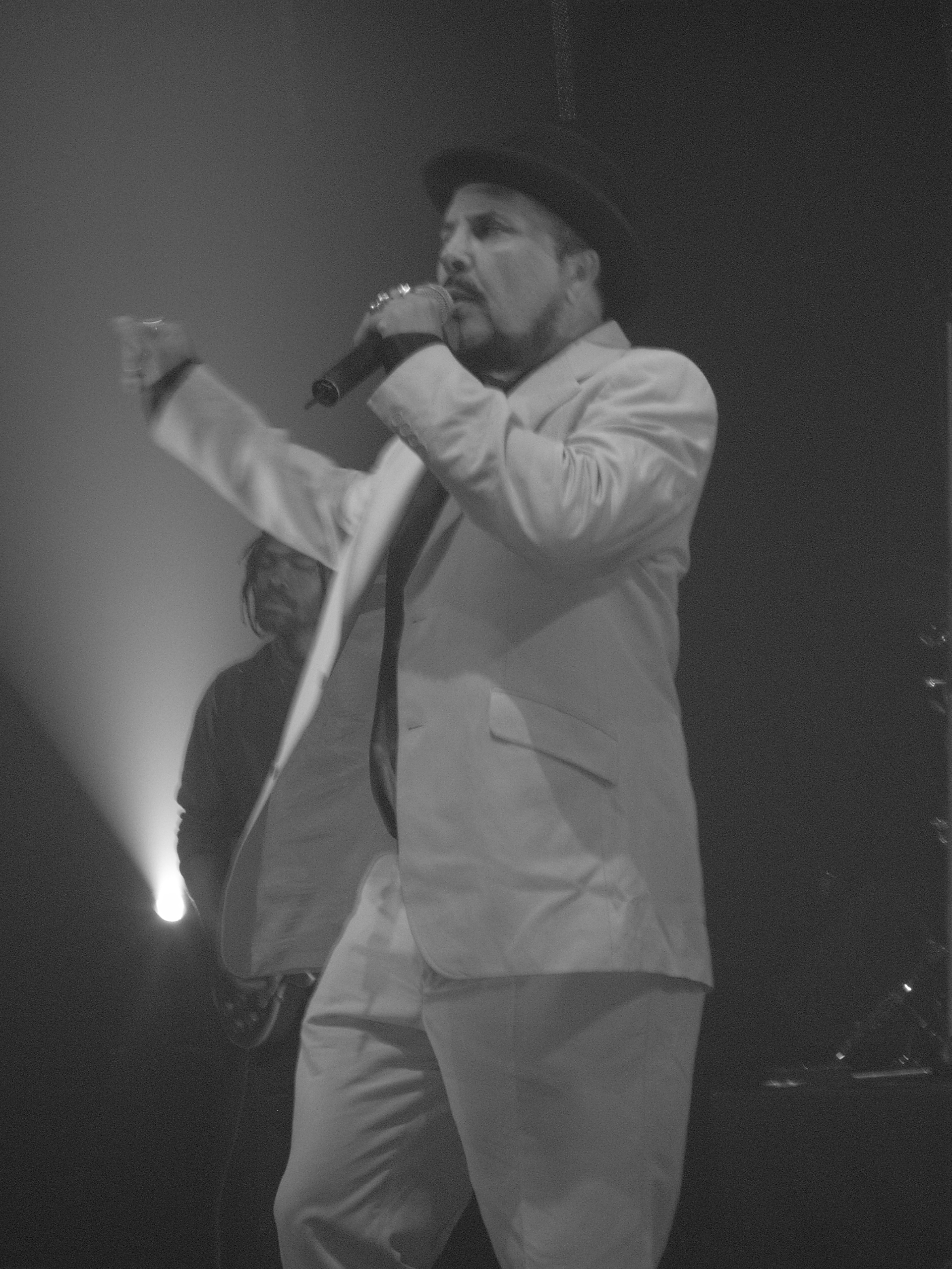 The singer Dennis Alcapone at a concert in Choisy Le Roy (France) - 2006, october 7